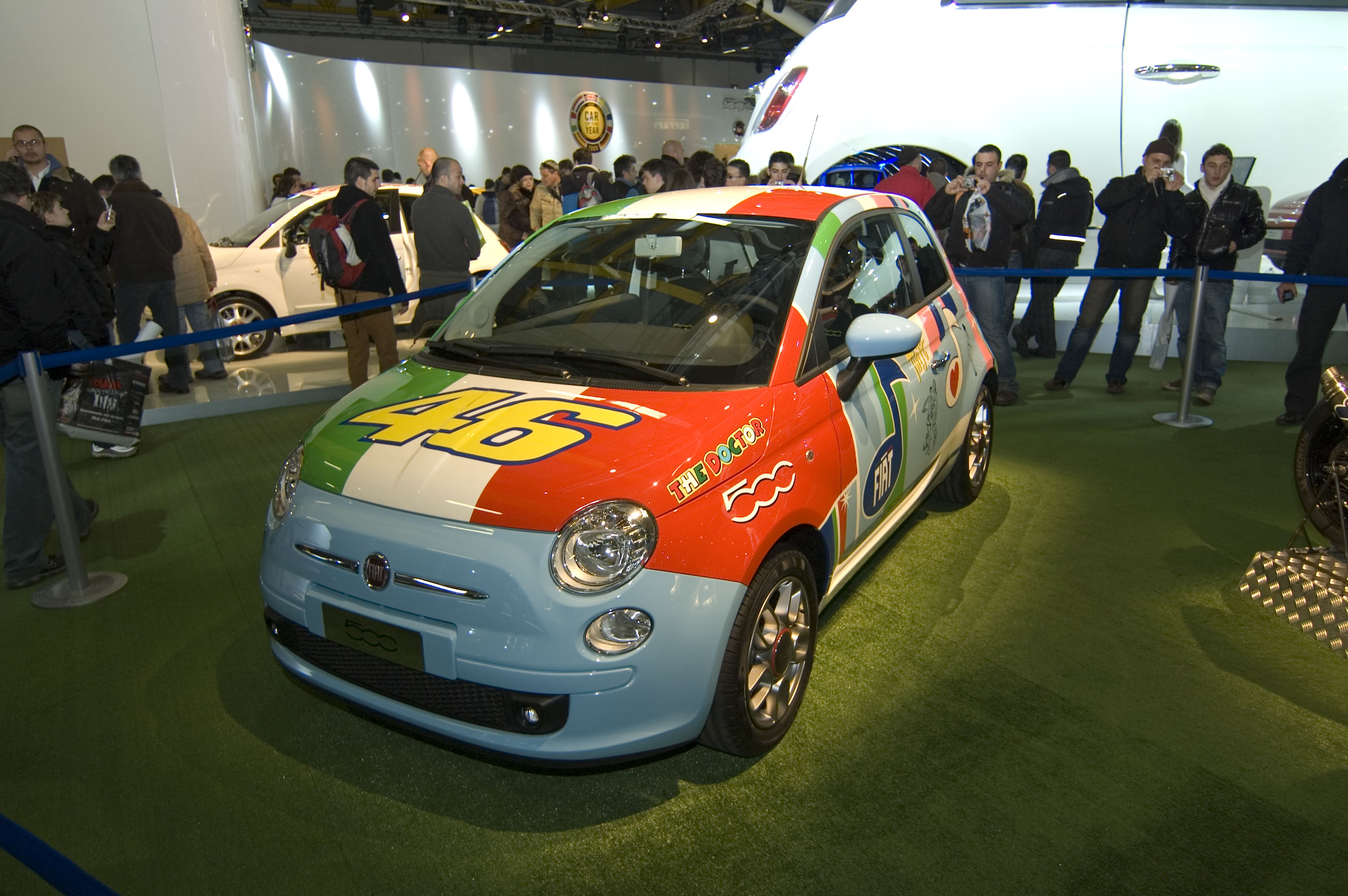 Motor Show 2007: Fiat 500 Valentino